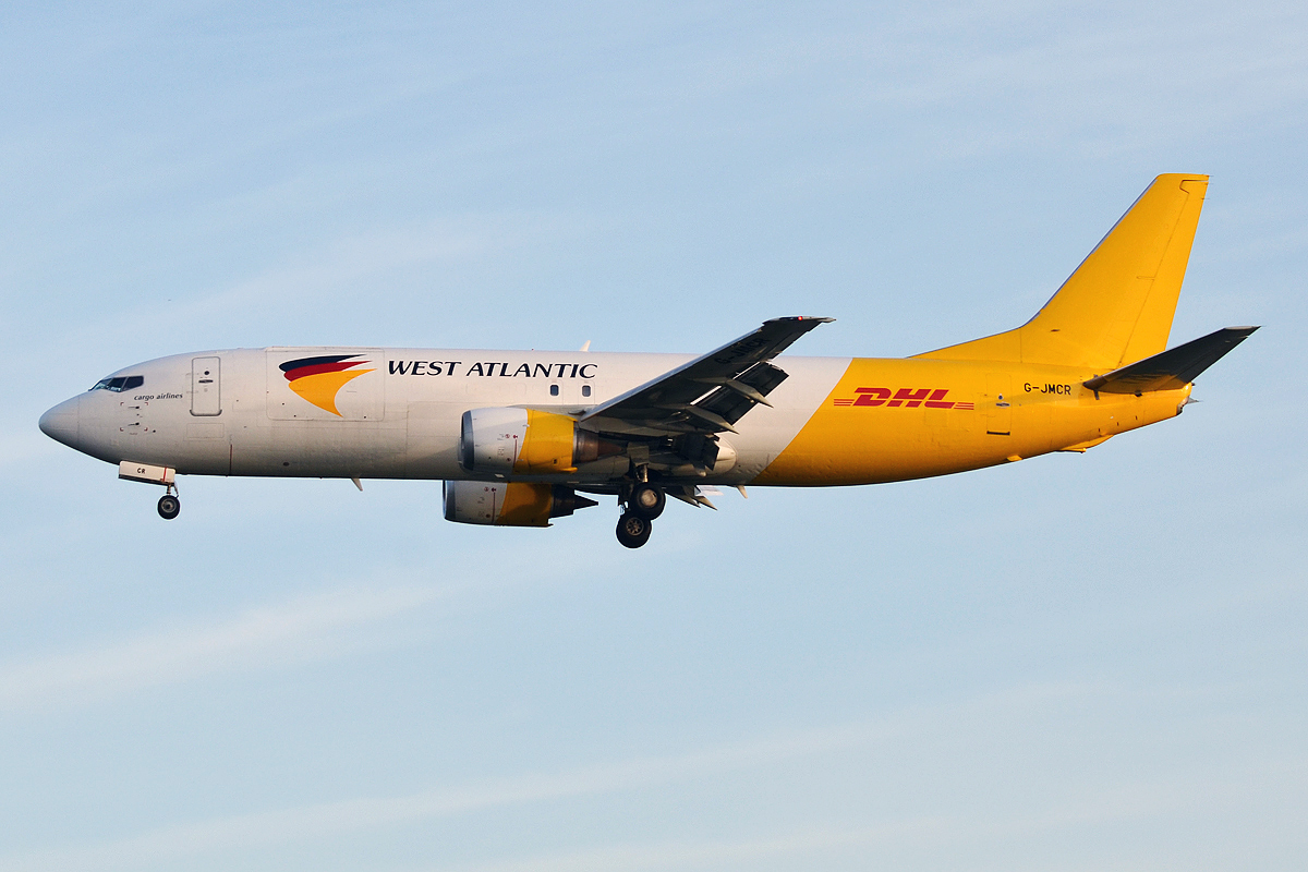 West Atlantic UK, G-JMCR, Boeing 737-4Q8 SF